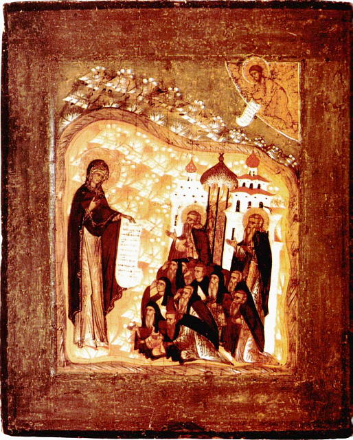 Bogoljubskaya icon of virgin Maty with st. Zosima and Savvatiy. Old Believers church.